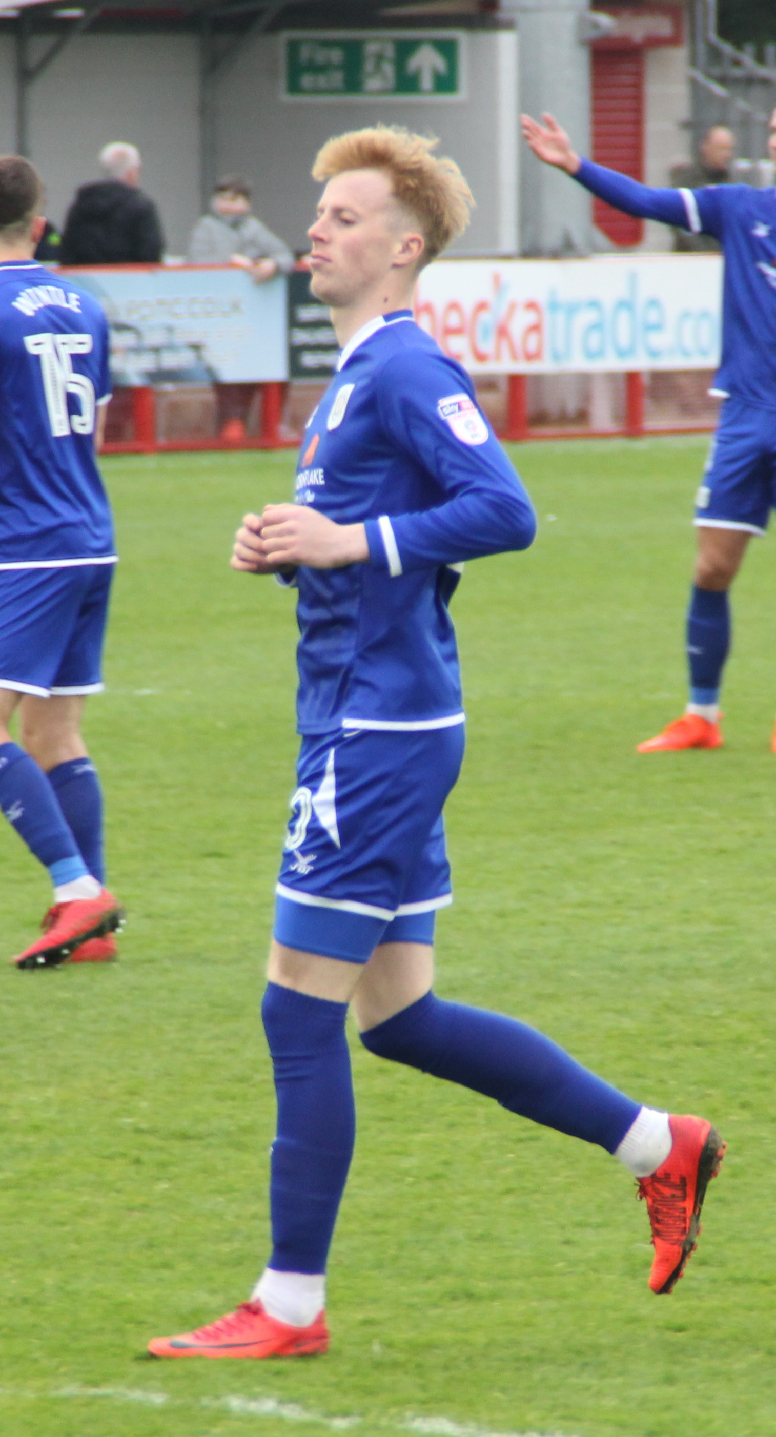 Charlie Kirk playing for Crewe Alexandra at Crawley Town, 28 April 2018